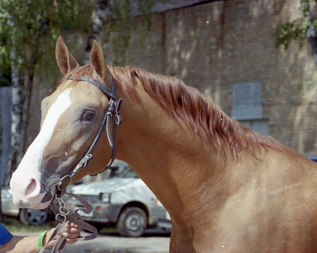 Don stallion at horse fair in Moscow